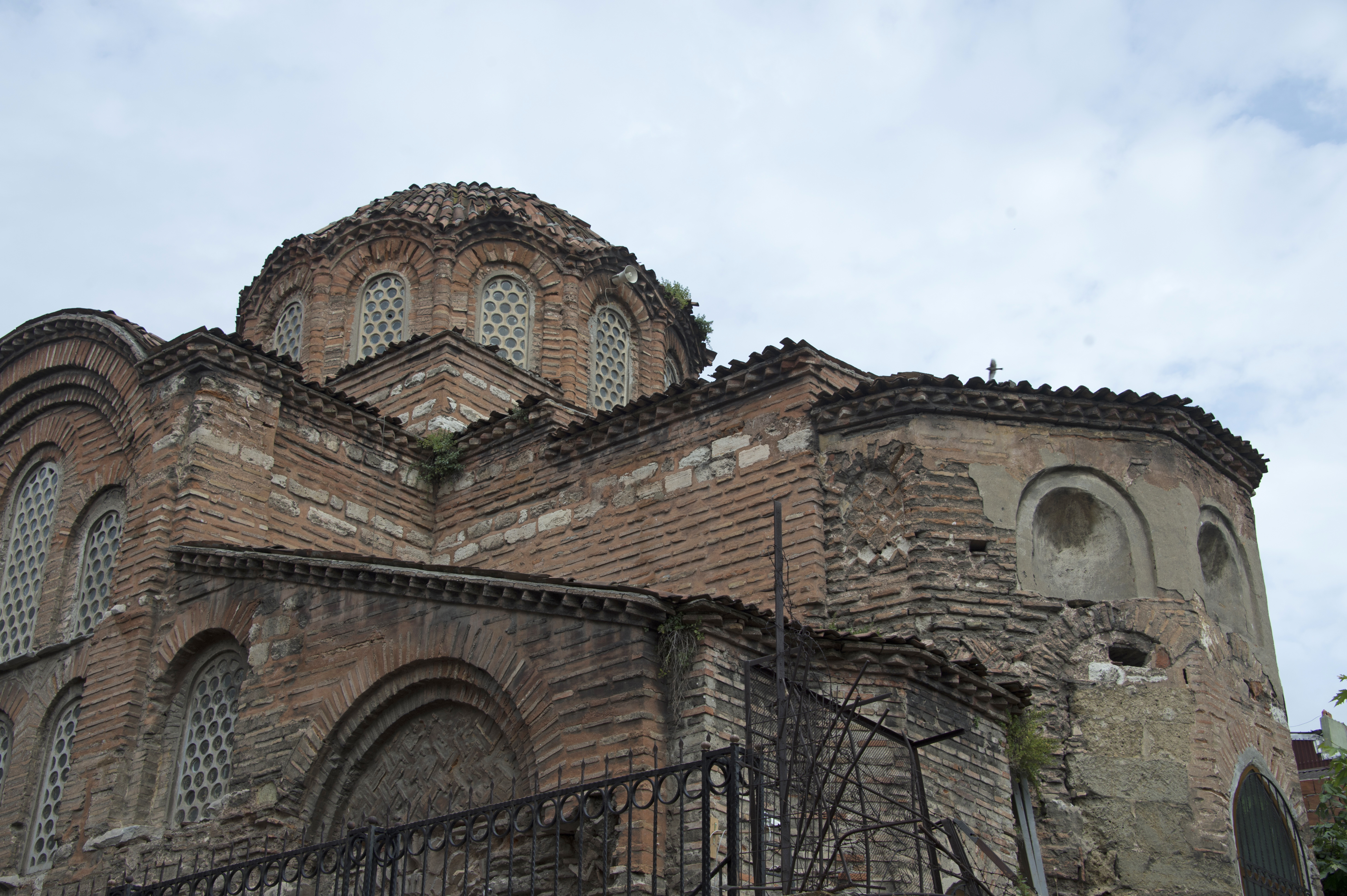 The Eski Imaret Mosque, which is the former Church of St. Saviour Pantepoptes, Christ the all-seeing. It was founded in 1085-90 by the Empress Anna Delassena, mother of Emperor Alexius Comnenus, founder of the Comneni dynasty, which was to reign Byzantium in the 11-12th centuries. Anna ruled as Co-Emperor with her son for nearly 20 years and had a great influence. In 1100 she retired to the convent of the Pantepoptes, where she died in 1105 and was buried in the church she founded. I quote from the Strolling through Istanbul guide, which continues describing the “sad state of dilapidation” of the church, now mosque. Or rather: it mentions this is now a Koran School. And that is why this gallery is curious: when I visited with Byzantine specialist Raffaele D’Amato we were first forbidden to take pictures, because the Koran School was running. The central space was filled with groups of children who were memorizing the Koran, and it was forbidden to take pictures. After some negotiating we were allowed to take pictures of the building elements, and for Raffaele this was the main point, because much of the interior had been changed in Turkish times, but things like doorframes and decorations were still obviously Byzantine.